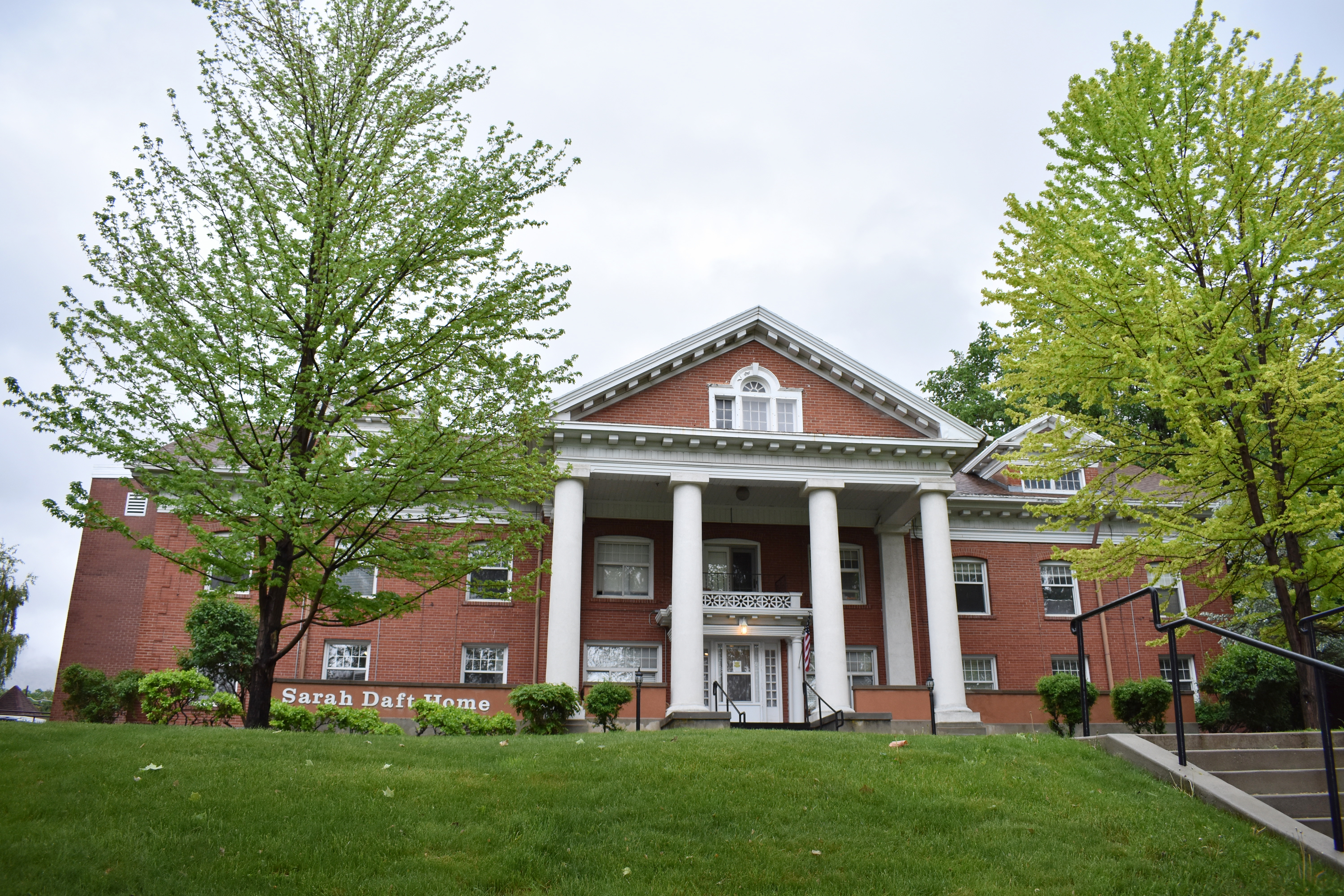 The Sarah Daft Home (1914) in Salt Lake City was designed by William H. Lepper and is listed on the National Register of Historic Places.